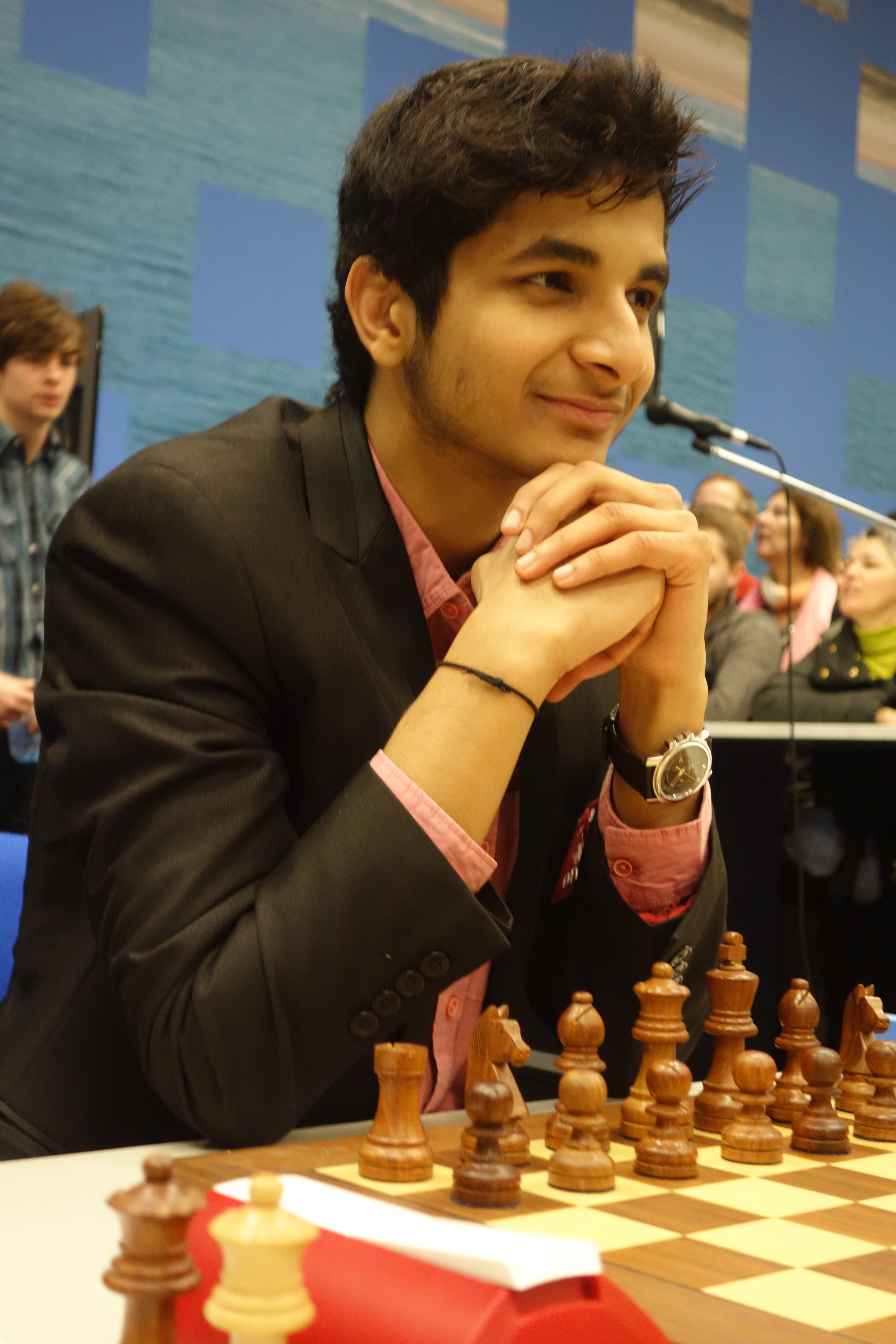 Tata Steel chess tournament 2018. Vidit Santosh Gujrathi.